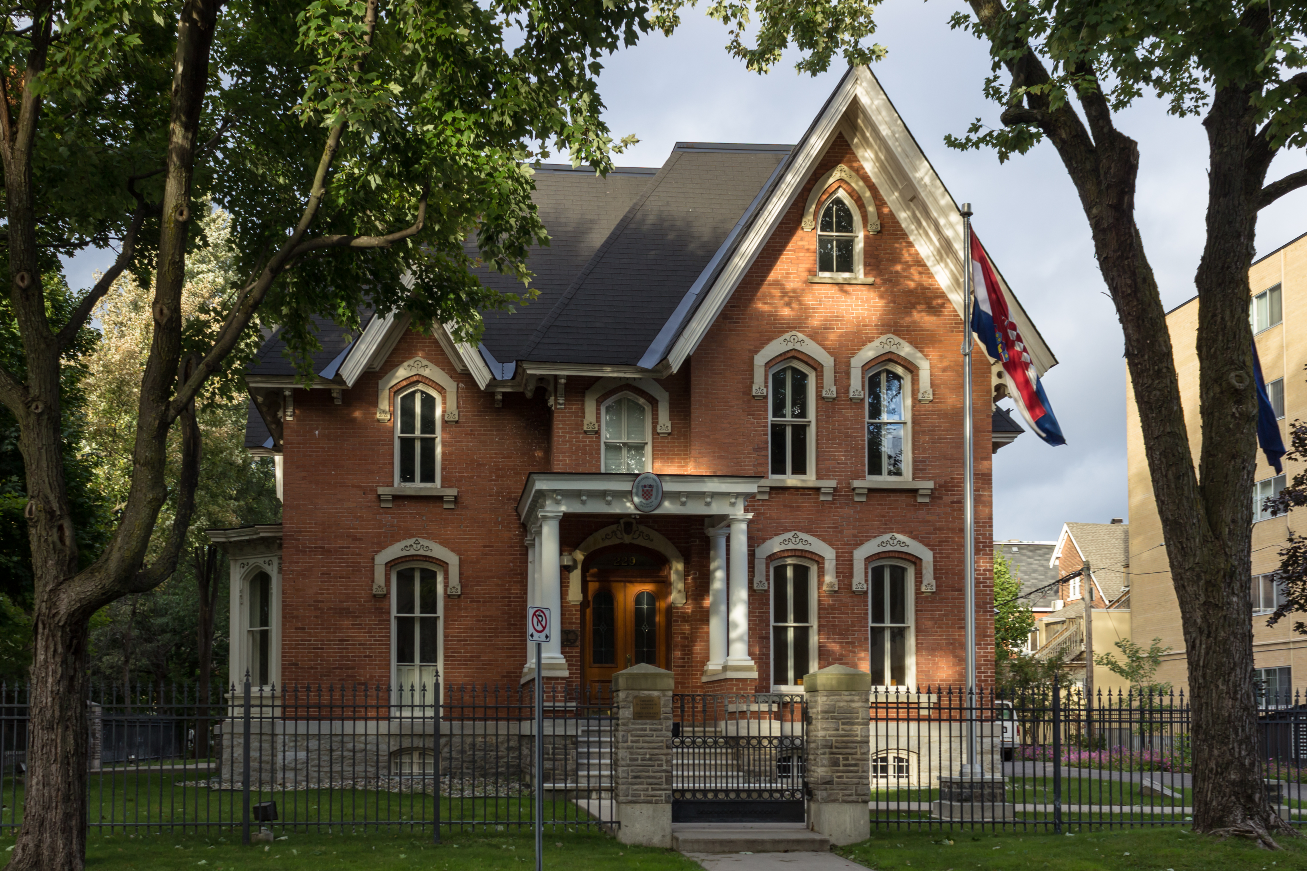 Toller House, a listet historic Place in Ottawa, today home to the Croatian Embassy to Canada